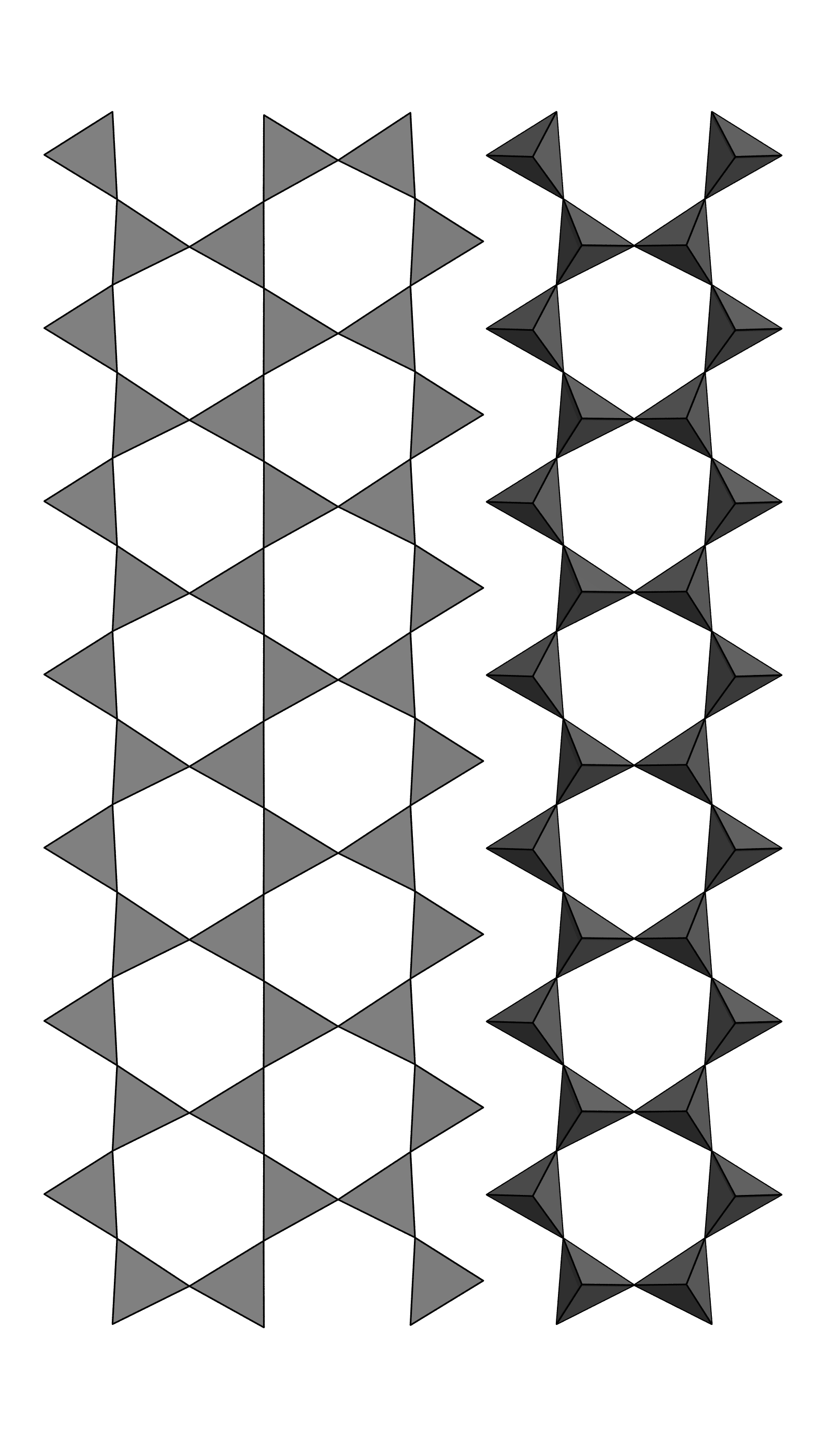 Mixed unbranched zweier double and triple chains in chesterite Data from: Veblen, D. R.; Burnham, C. W. (1978): New biopyriboles from Chester, Vermont: II. The crystal chemistry of jimthompsonite, clinojimthompsonite, and chesterite, and the amphibole-mica reaction, American Mineralogist 63, pp. 1053-1073 Calculation of image data: Larry W. Finger, Martin Kroeker, and Brian H. Toby, DRAWxtl, an open-source computer program to produce crystal-structure drawings, J. Applied Crystallography V40, pp. 188-192, 2007 Rendering: POVRAY